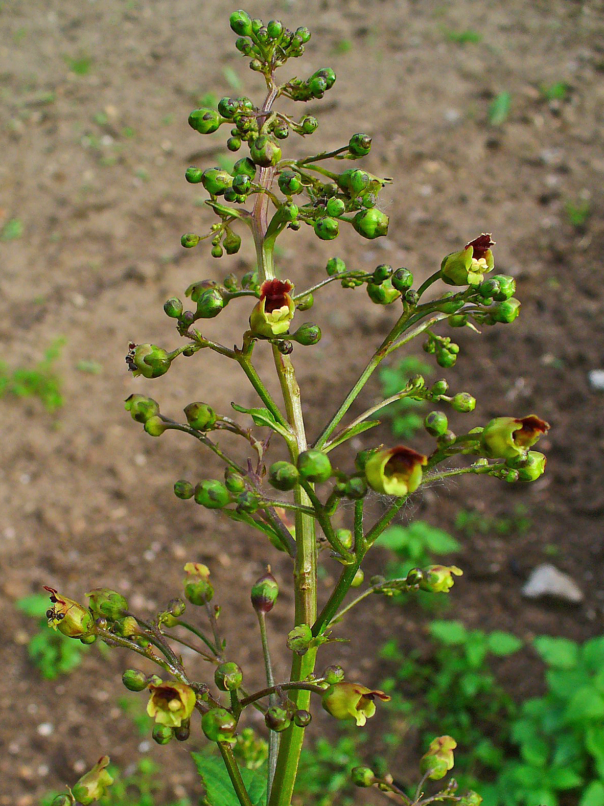 Scrophularia nodosa, Scrophulariaceae, Woodland Figwort, Common Figwort, inflorescence.